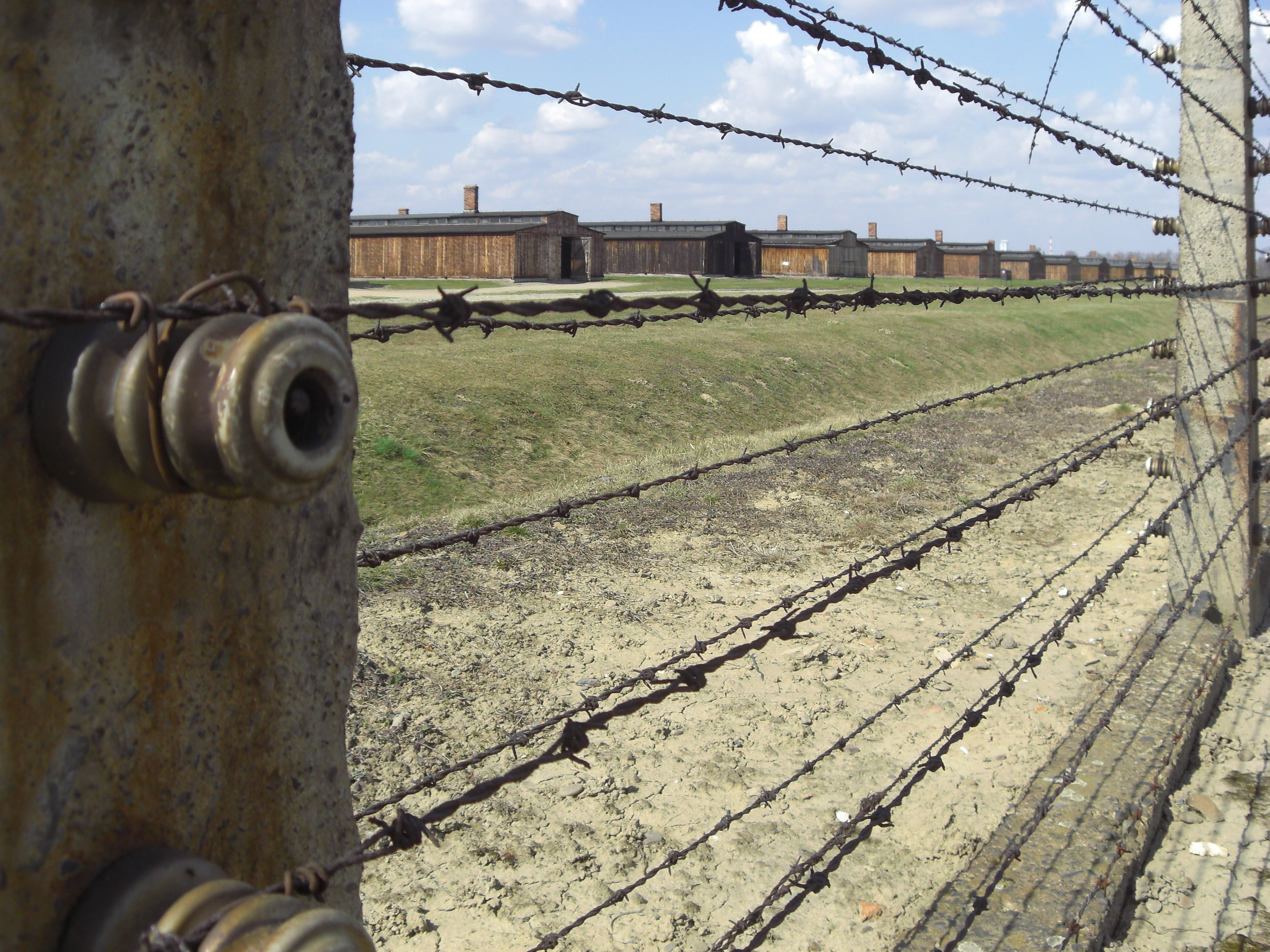 Barracks Auschwitz ll (Birkenau), Poland